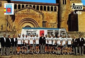 Equipo Teka 1974-1977 Antonio Prieto Lozano, Córdoba (España) Ciclista Profesional